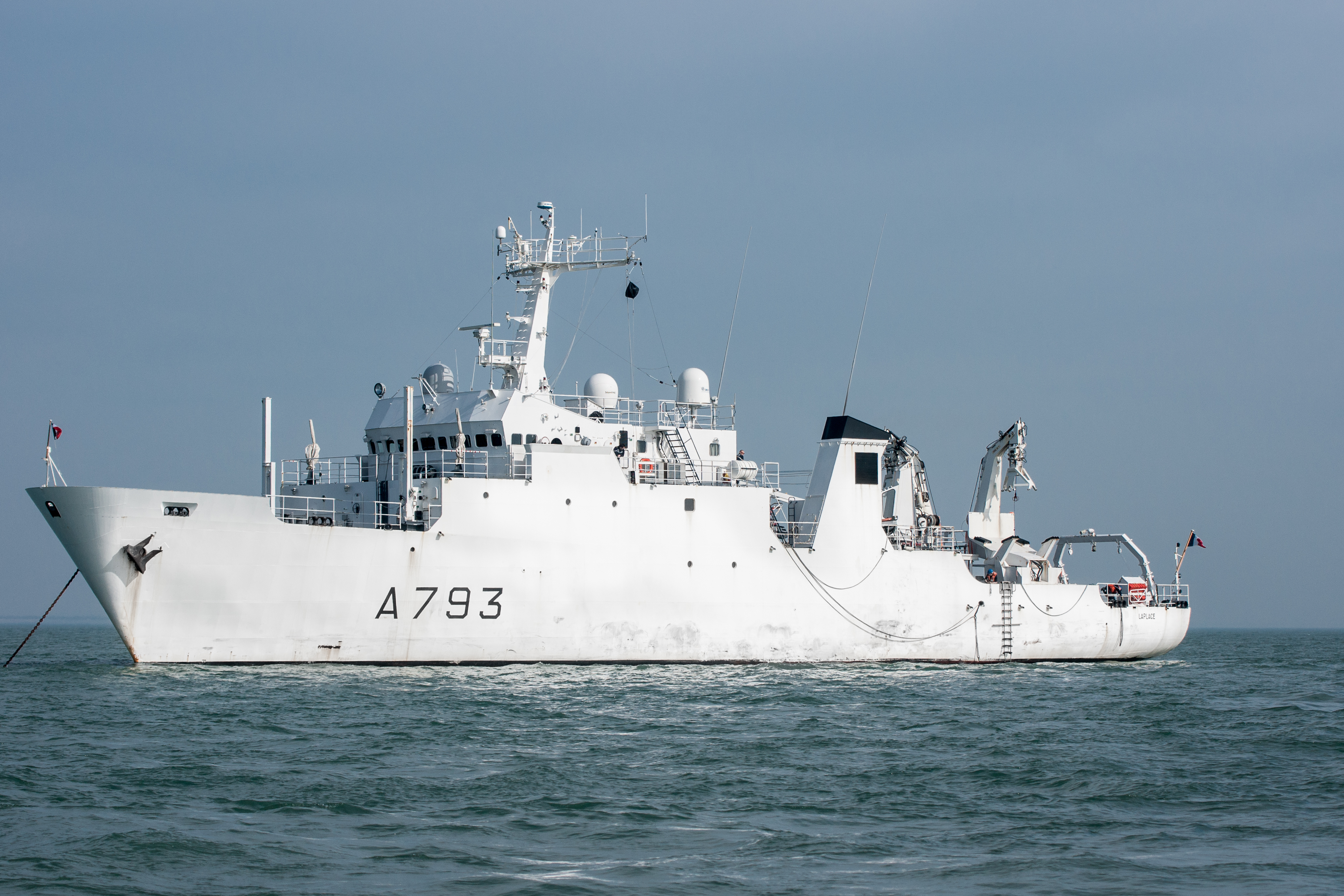 French Hydrographic Ship Laplace A793 at anchor off Normandy coast